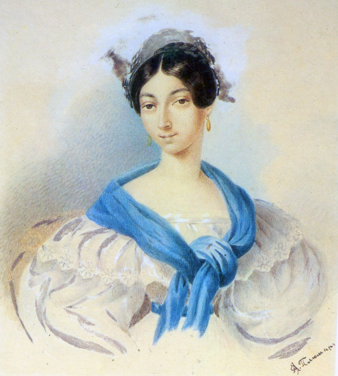 The portrait of Olga Pavlishcheva (1797—1868), sister of poet Alexander Pushkin